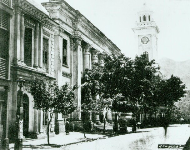 Northern facades of Courthouse and Post Office, Queen's Road (Central), Pedder Street Clock Tower in background